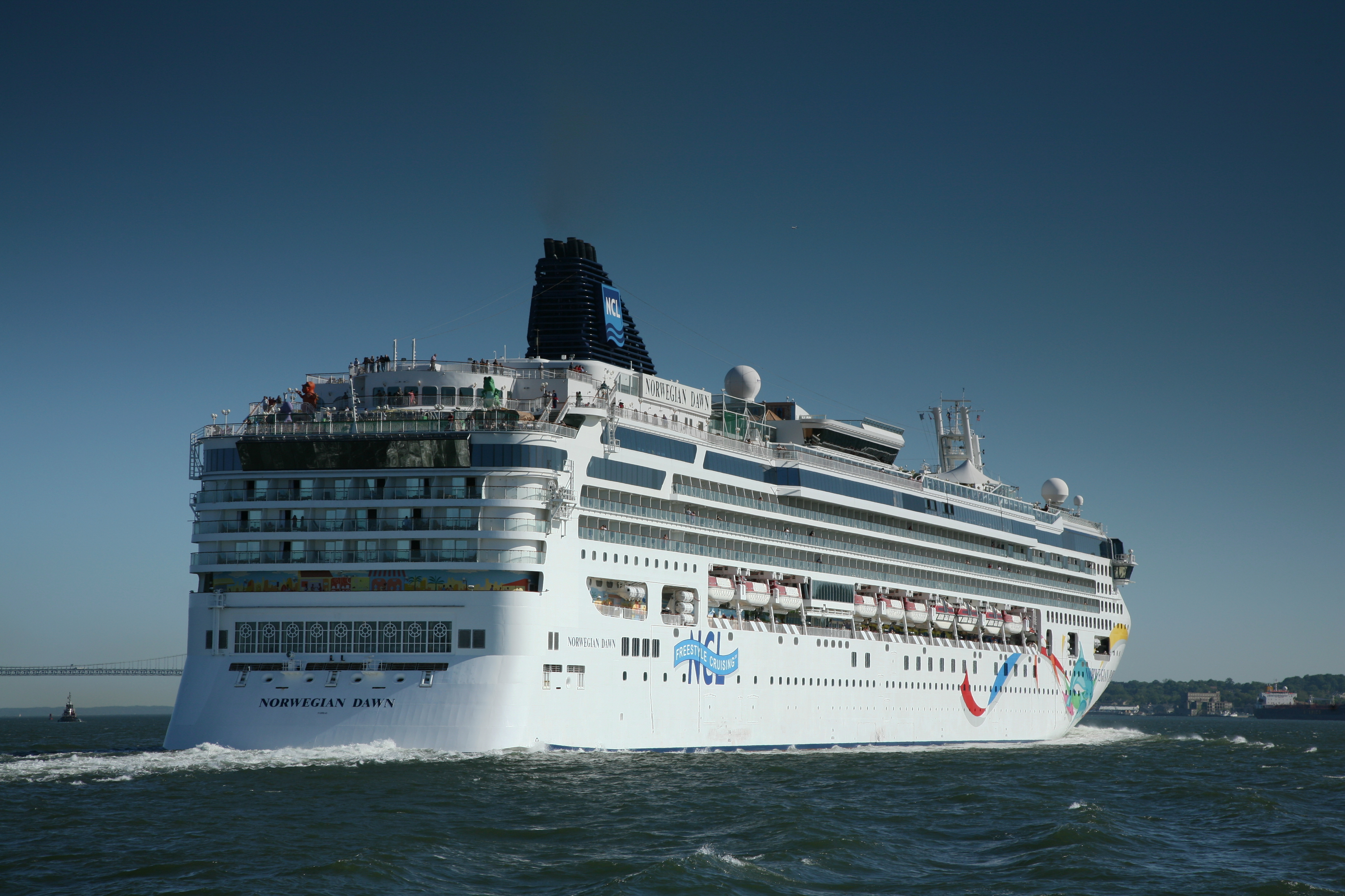 Cruise ship Norwegian Dawn leaving Ney York City harbour with the Verrazano Narrows bridge in the background. IMO Number: 9195169 MMSI Number: 311307000 Callsign: C6FT7 Length: 294 m Beam: 32 m